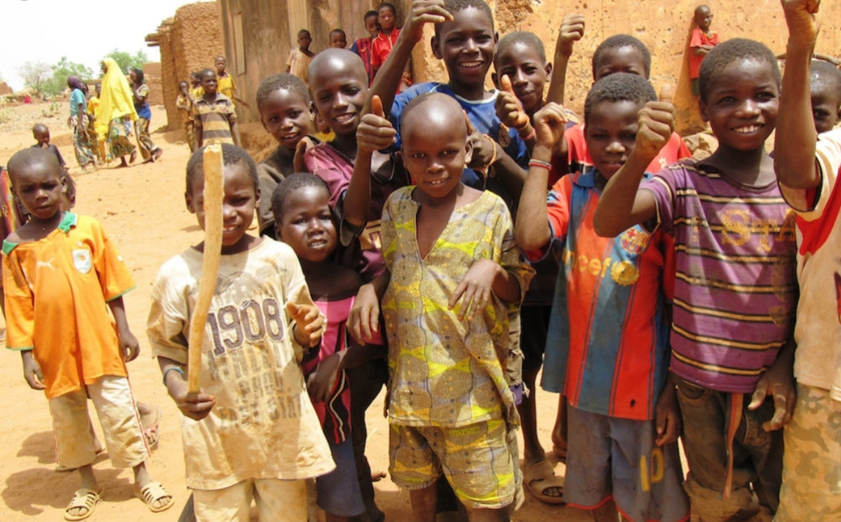 The file represents the needy children of Niger This is an image with the theme "Play" from: Niger